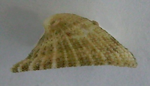 Emarginula striatula (side view = lateral view. This lateral view shows right side) dredged north of Pakiri, New Zealand.